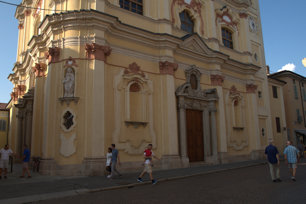 Lower part of "Santissima Trinità" church in Crema, Italy